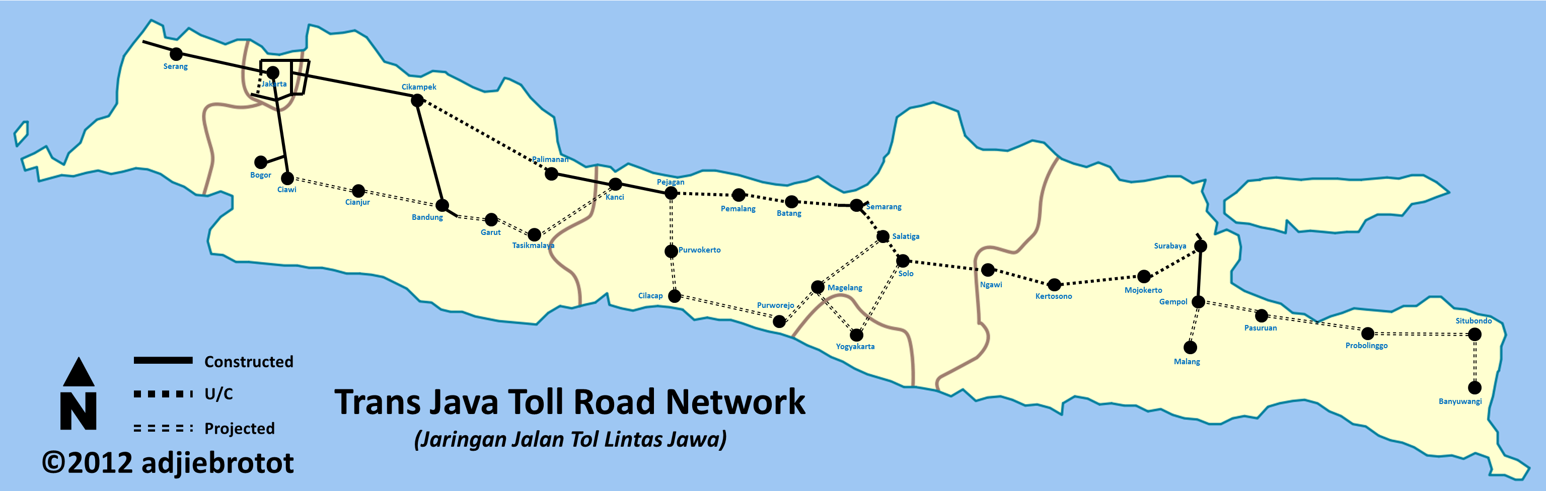 Map of Trans-Java toll road. Data renewed at 18th of December 2012.